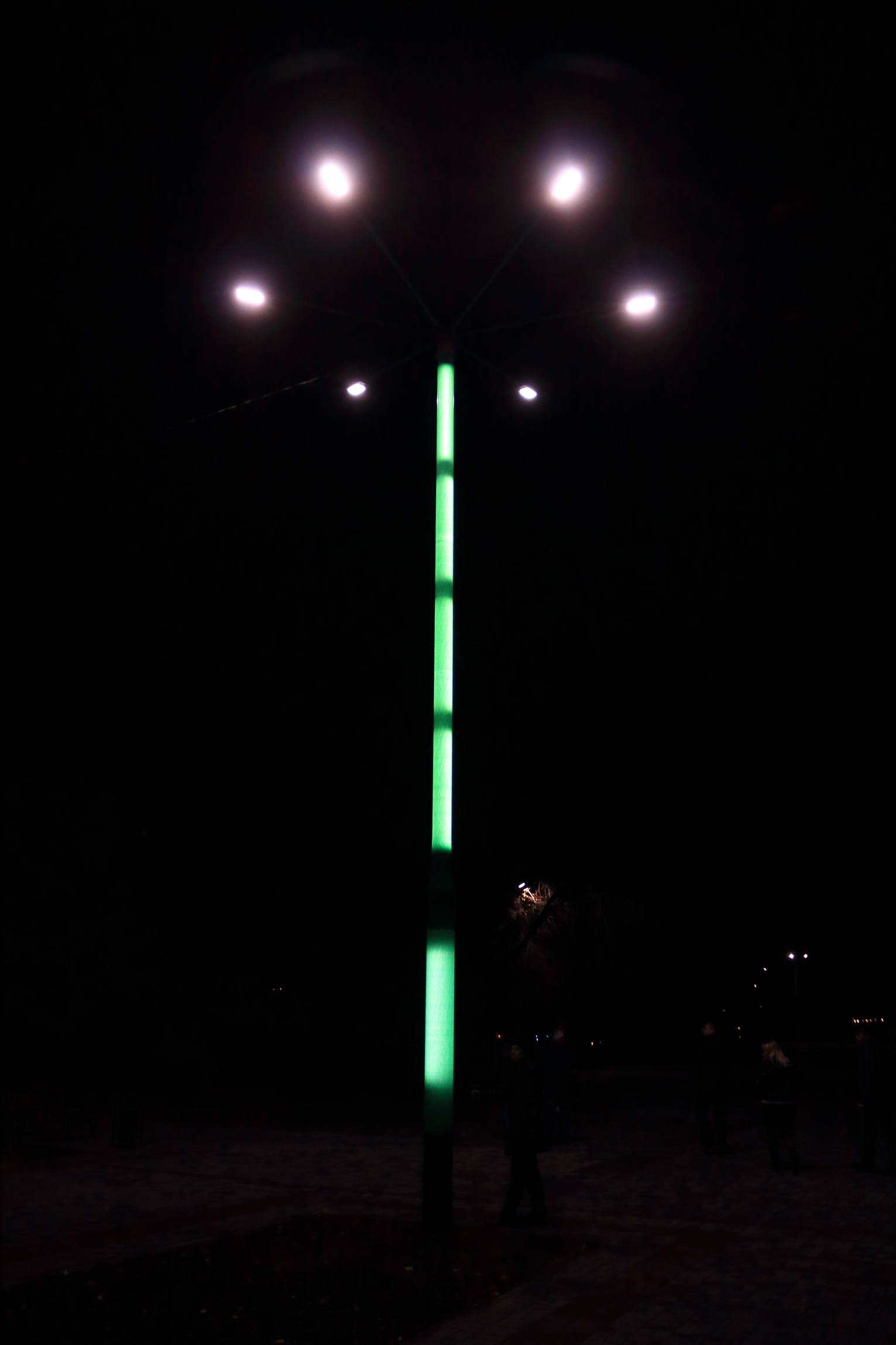 Composite lights pylon with internal light source in Biysk, Russia